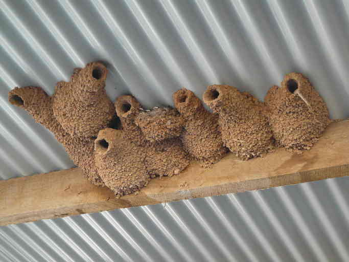 Petrochelidon ariel nests at Monarto Zoological Park (South Australia, Australia)